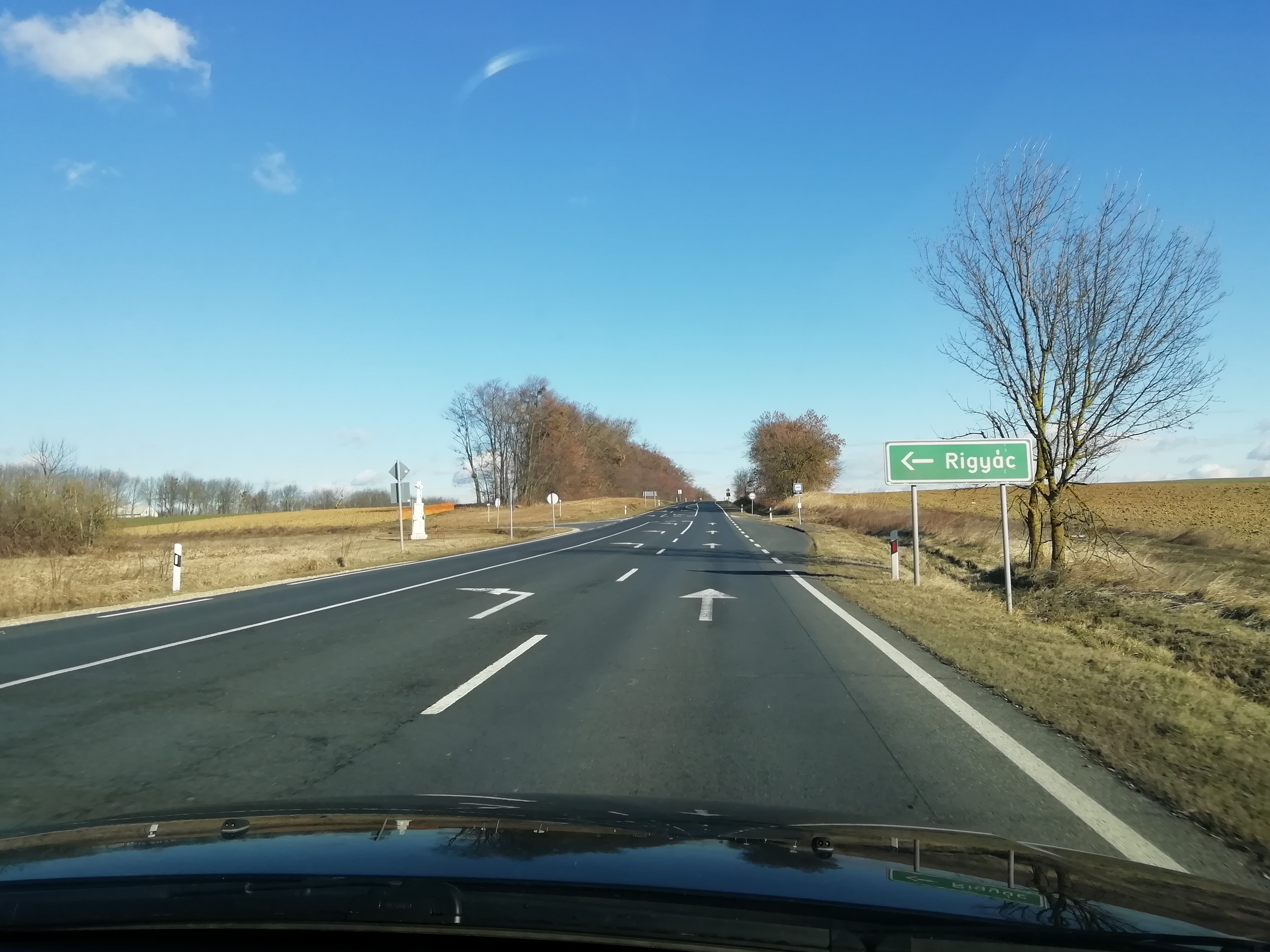 Route 7 at Rigyác junction